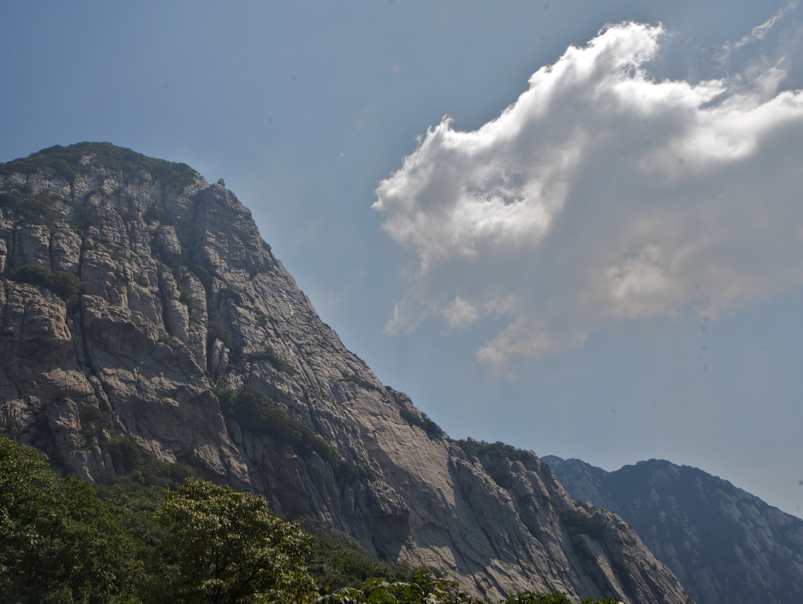 Song Shan, near Shaolin Temple.